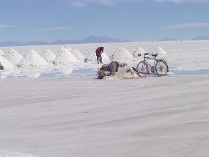 Salar de Uyuni (Bolivia), a farmer digs salt